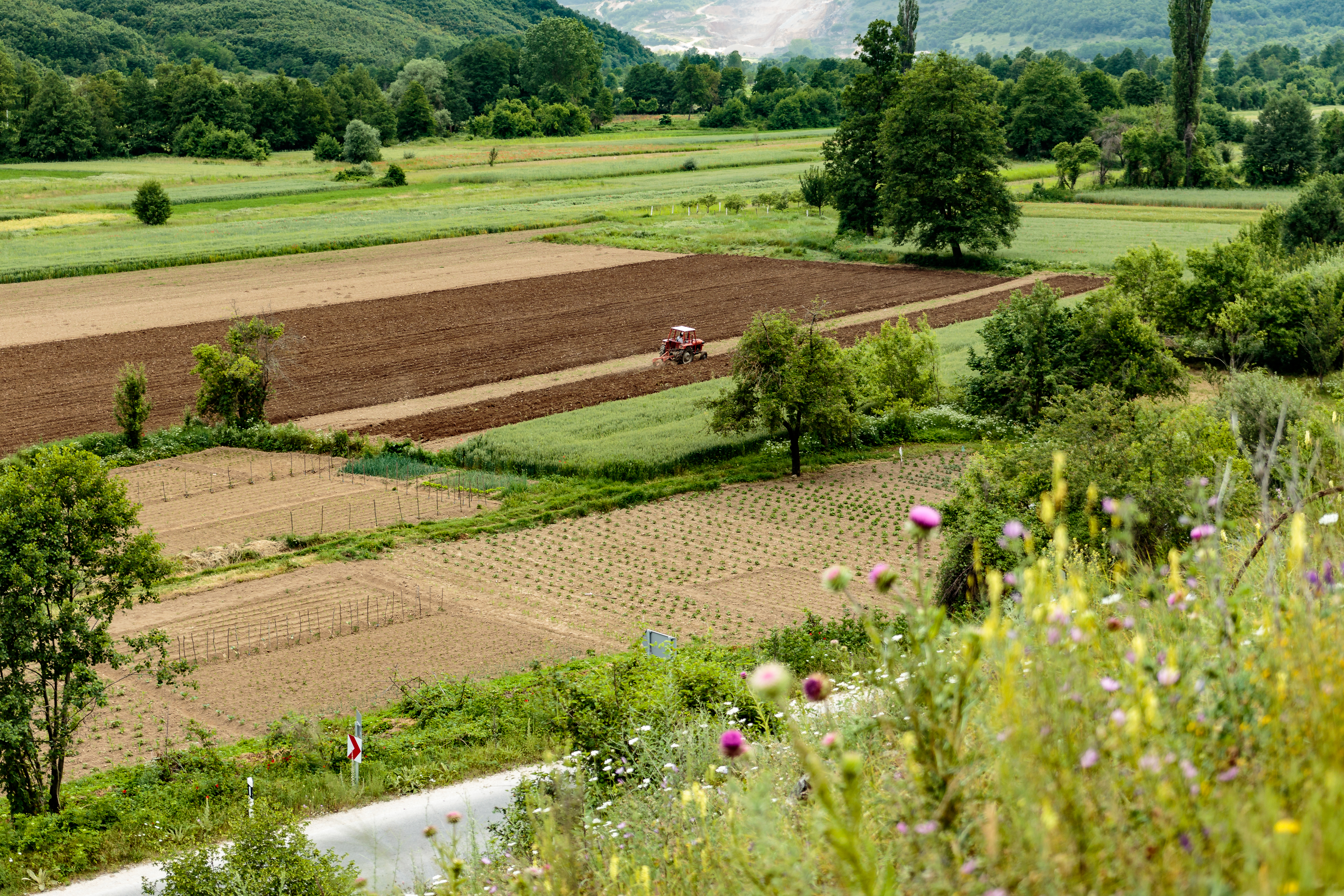 Small field in front of the village Žvan